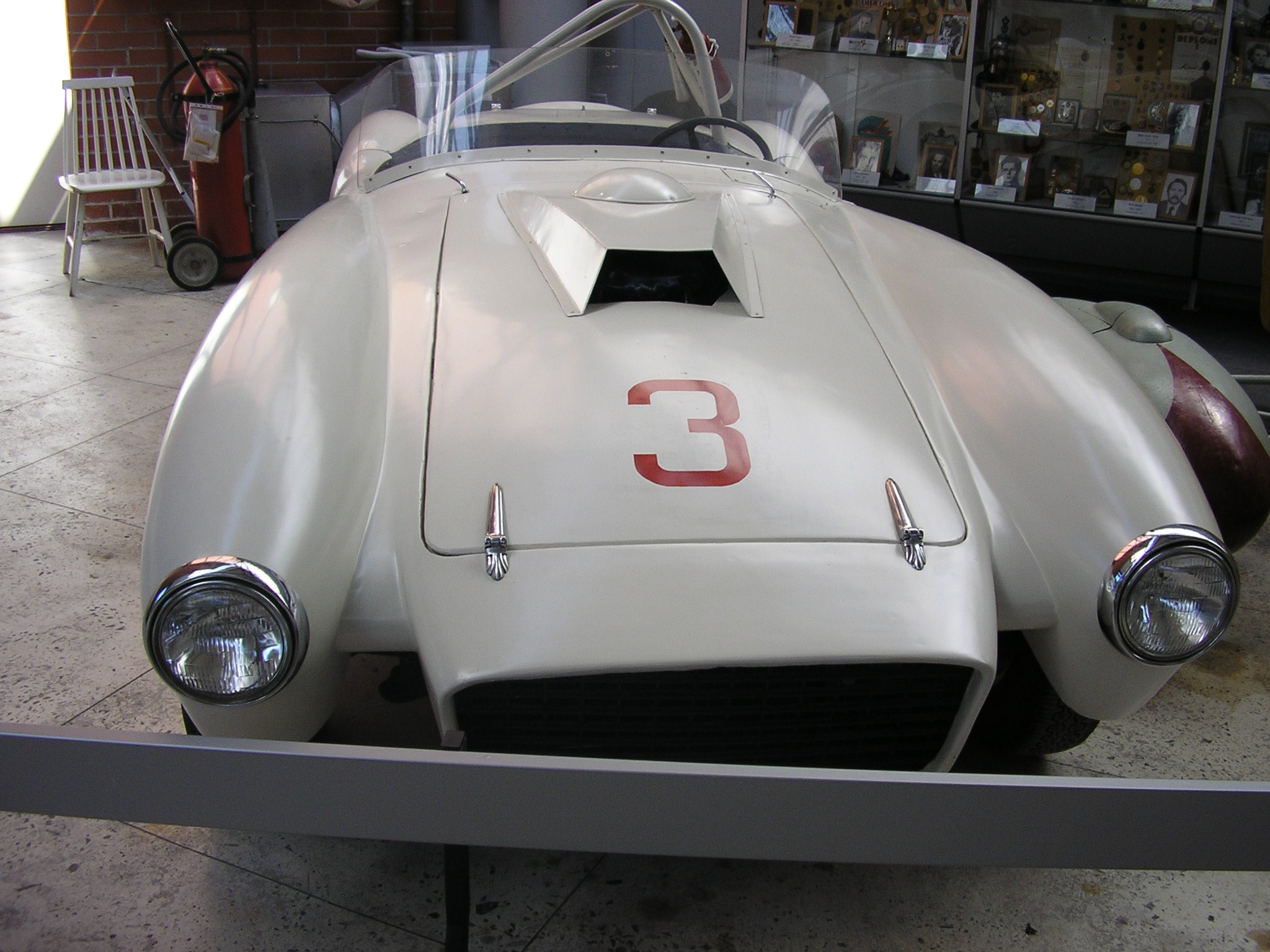 A 1962 ZIL-112S. The 112S featured a lot of firsts for Soviet made cars such as controlled slip differential, disc brakes, radial-ply tires etc. The car has been tuned up to 300 hp from the standard 230 hp. It is powered by a 5980 cc inline-8 giving a top speed of 260 km/h. Between 1963 to 1965 the car set five all-Union records in the racetracks.